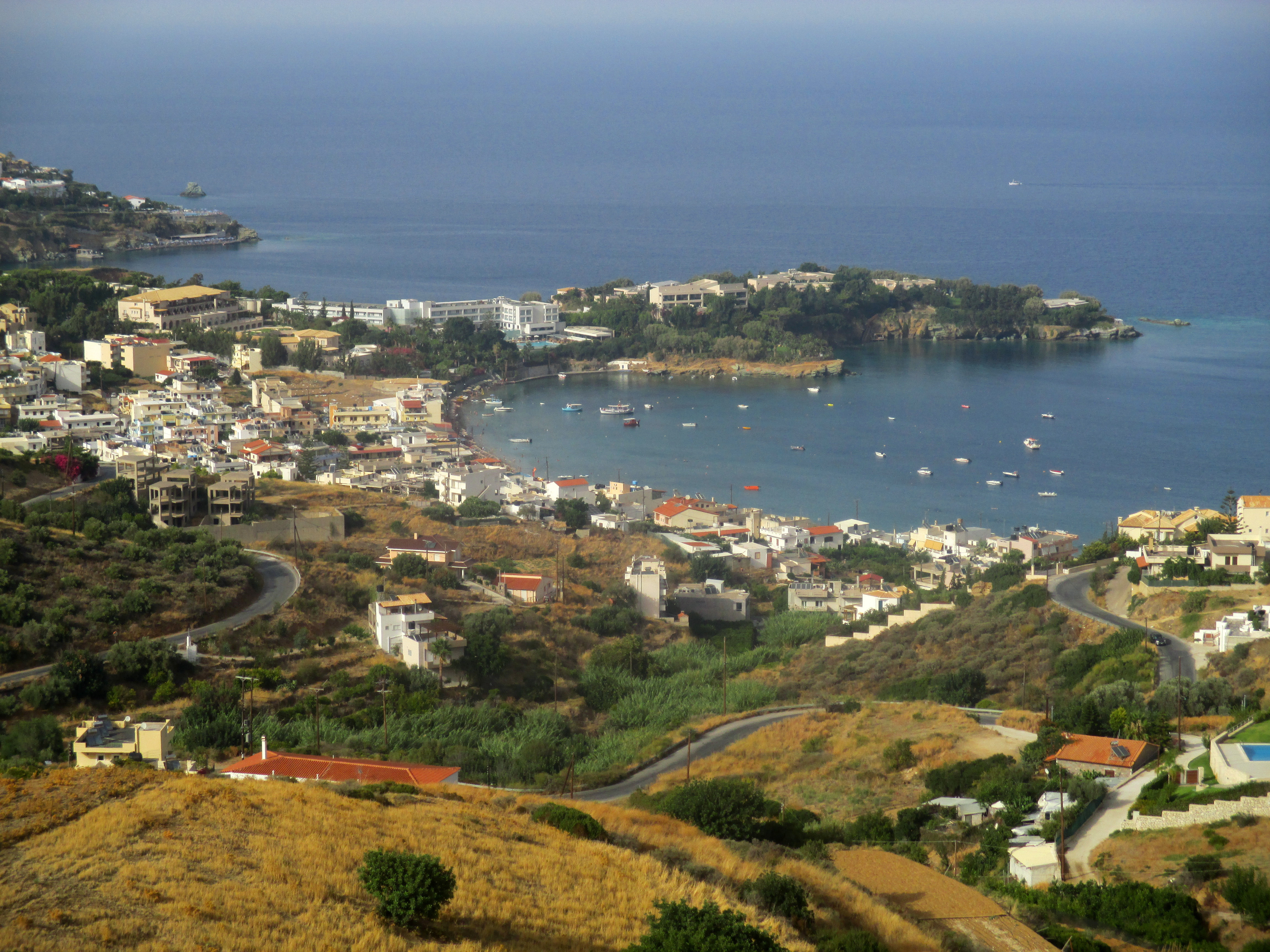 Agia Pelagia, Crete.